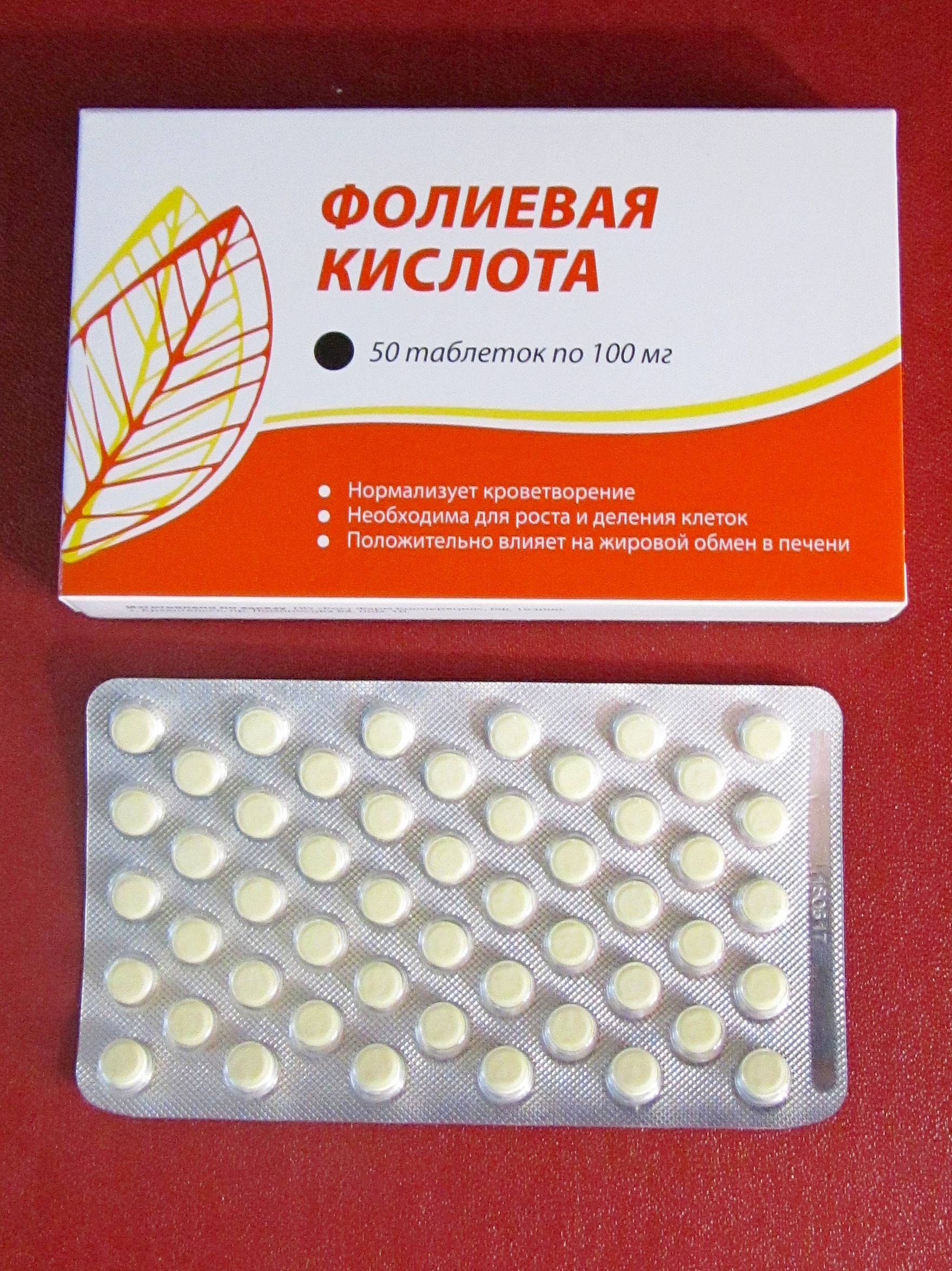 Folic acid